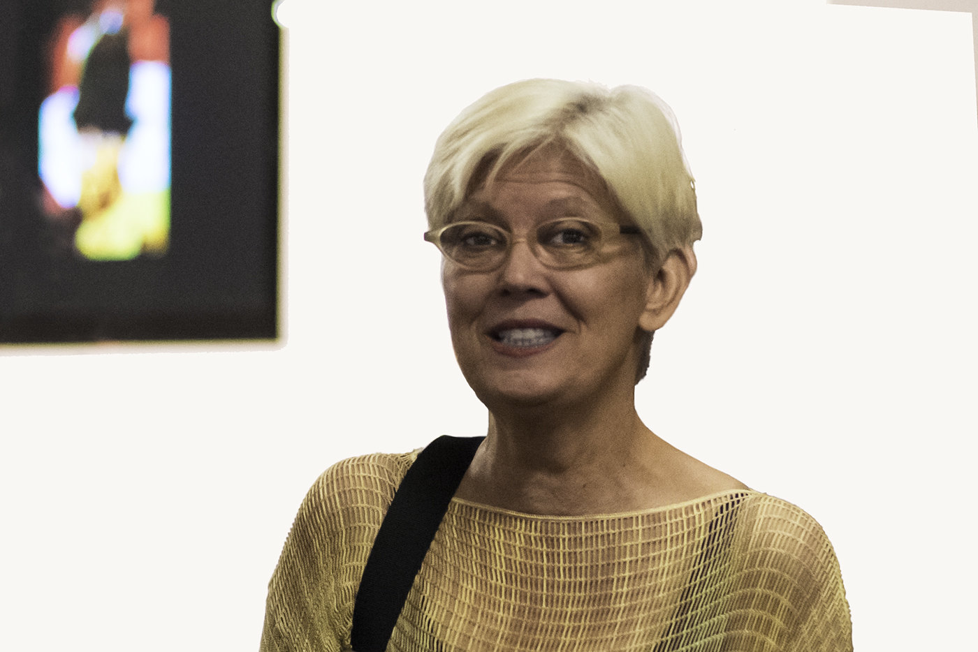 US-artist Louis Lawler Deitsch: die US-Künstlerin Louise Lawler